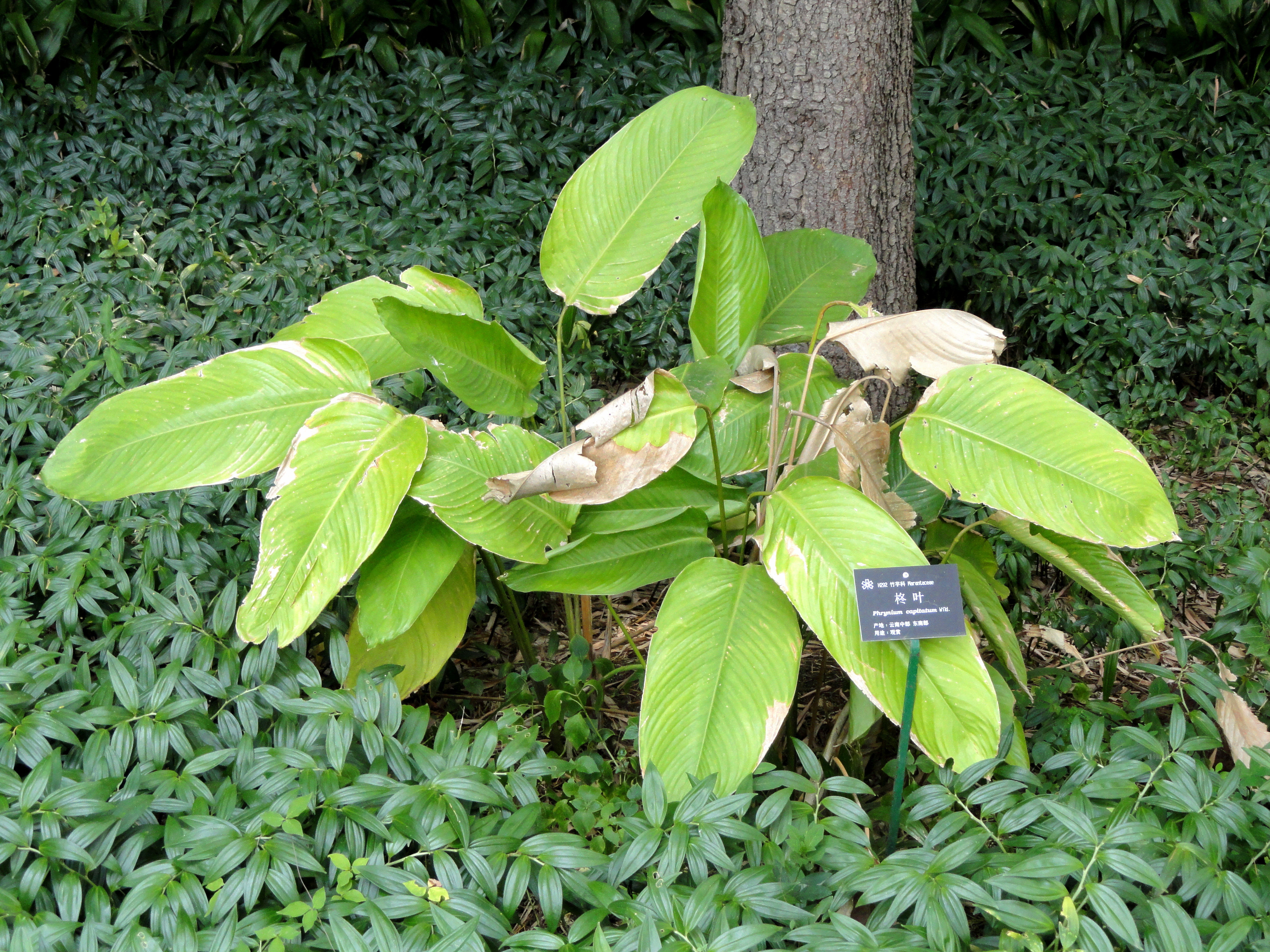 Plant specimen in the Kunming Botanical Garden, Kunming, Yunnan, China.